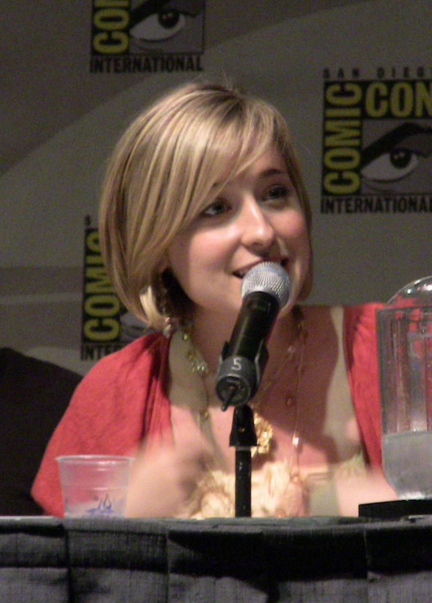 Actress Allison Mack – Comic-Con 2009 - Smallville - San Diego, Calif. - July 26, 2009.